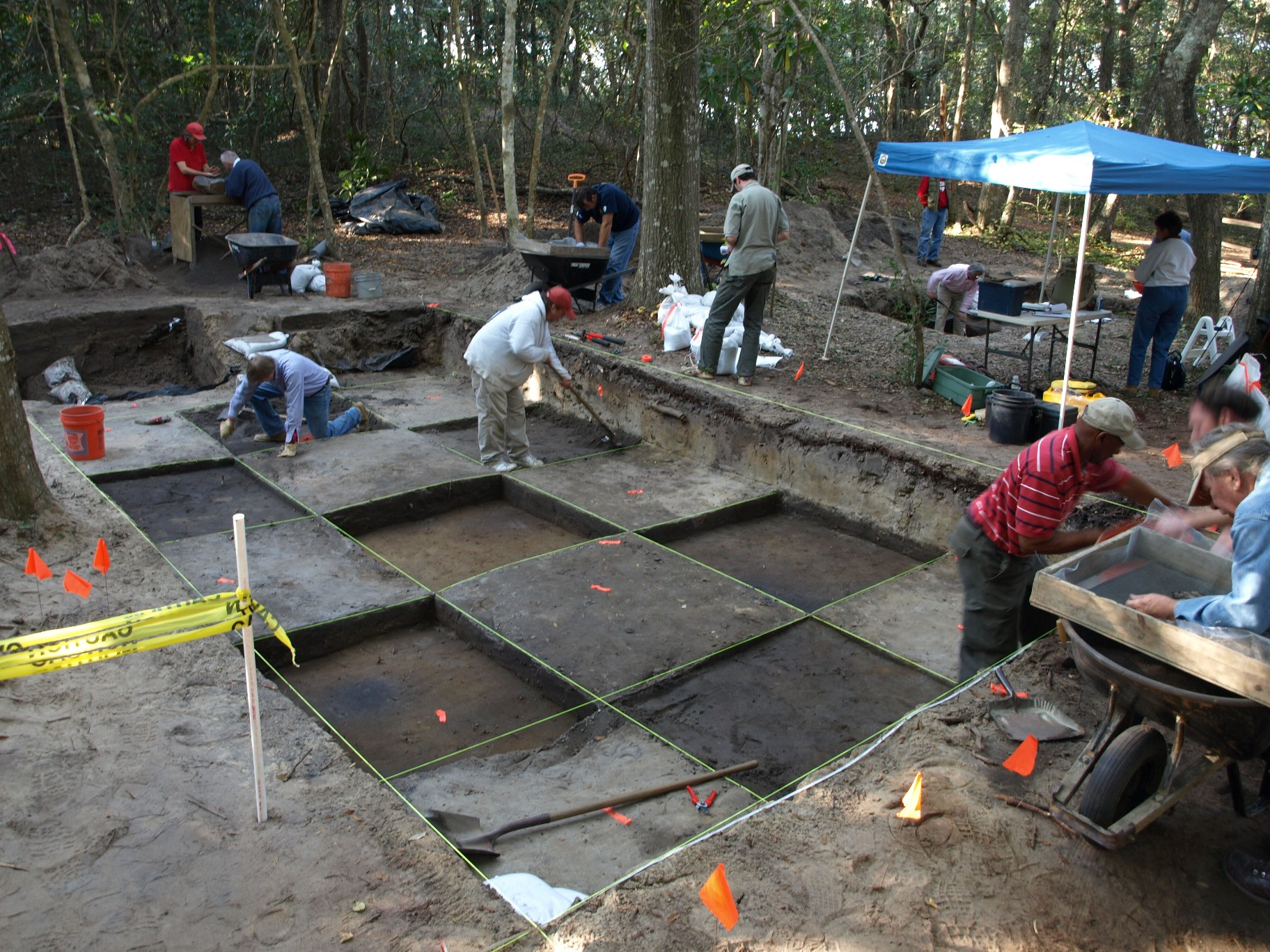 The First Colony Foundation conducts an archaeological dig in autumn 2009 at Fort Raleigh National Historical Site, to find artifacts related to the English colonies at Roanoke Island in the 1580s.